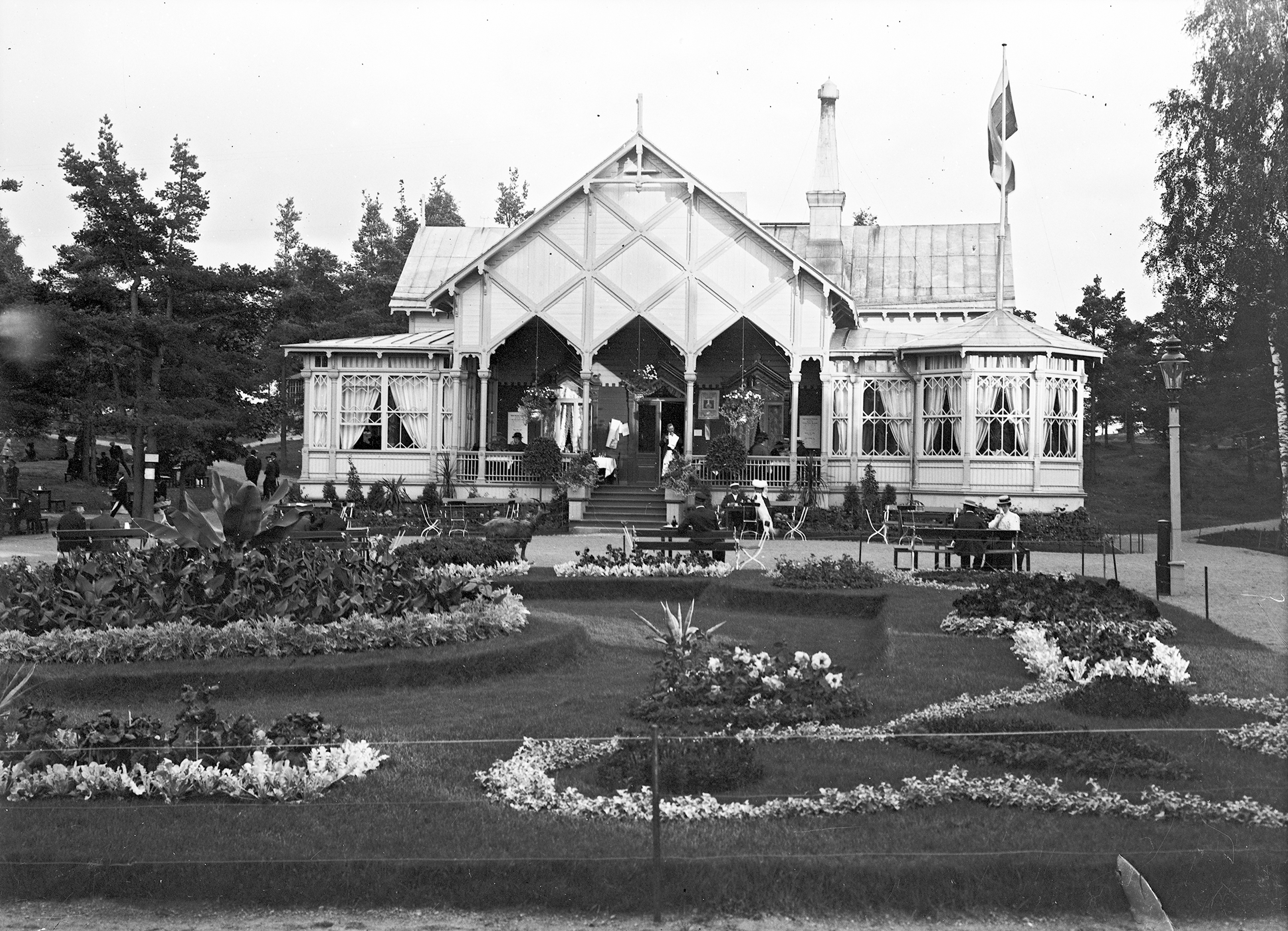 Restaurangen på Högholmen. Foto Gustaf Sandberg. sls1849_6 Ur boken Helsingfors i ord och bild Utgiven av Svenska litteratursällskapet i Finland, 2012